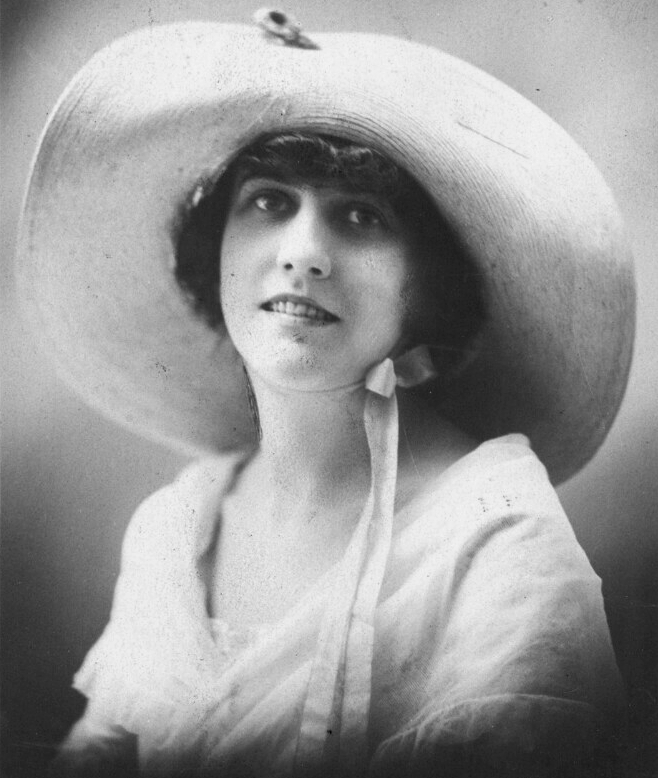 Magdalena Petit chilean writer